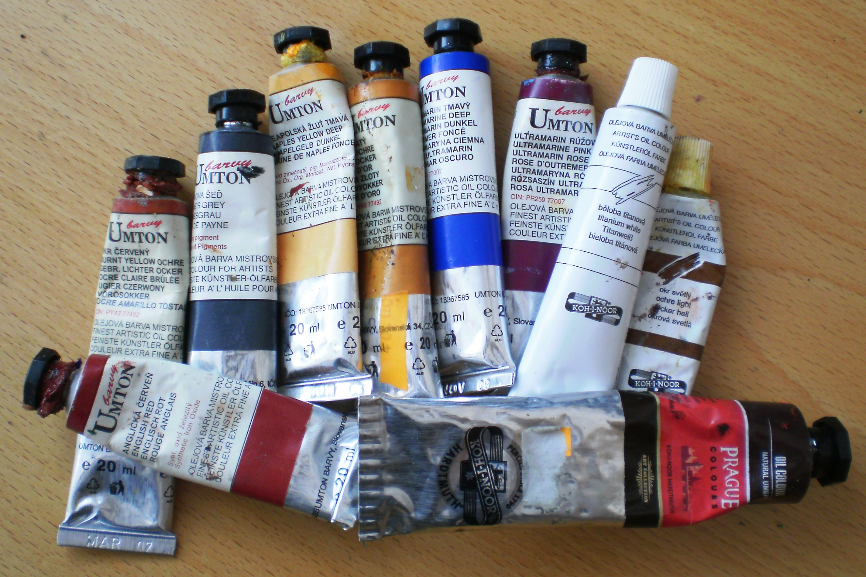 Oil paint in tubes